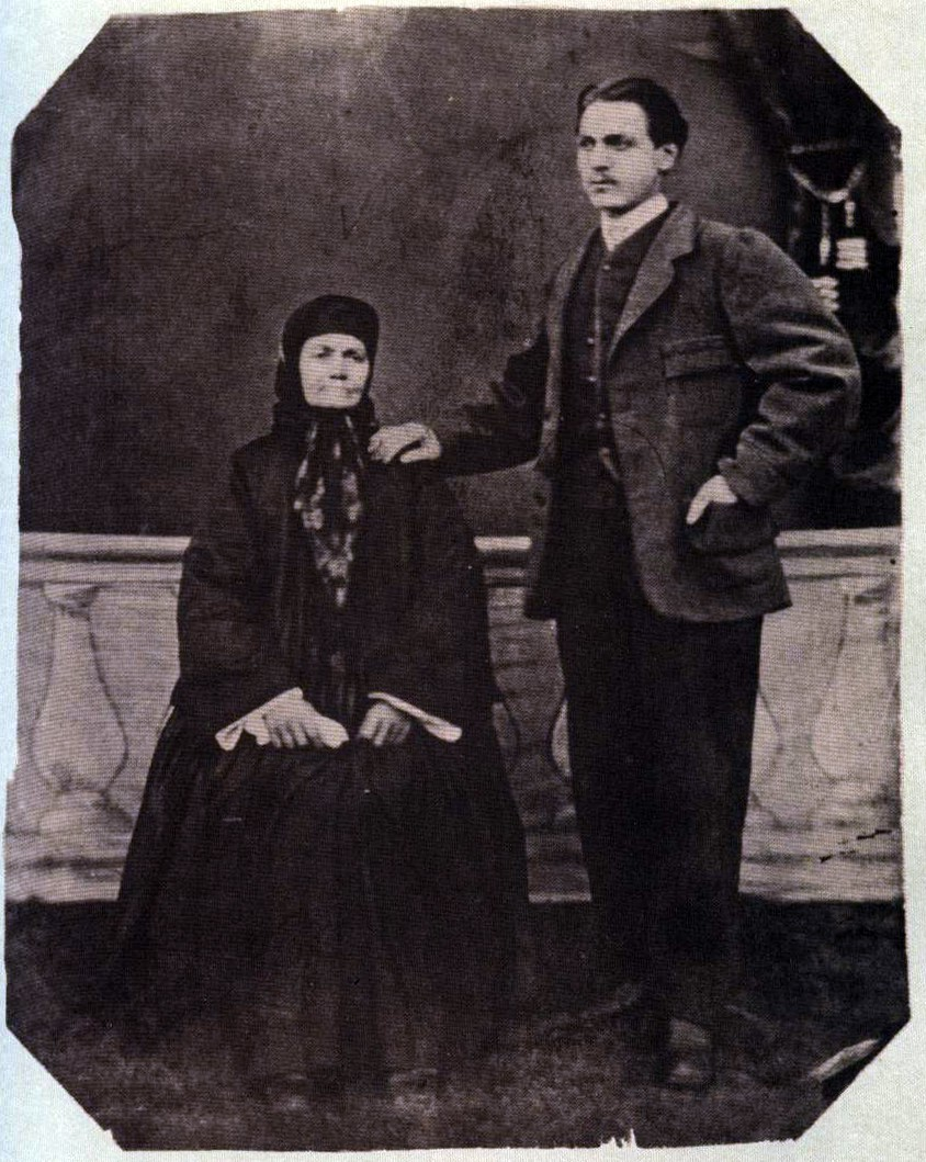 Vasil Levski's mother Gina Kuncheva and her eldest grandson Nacho Andreev